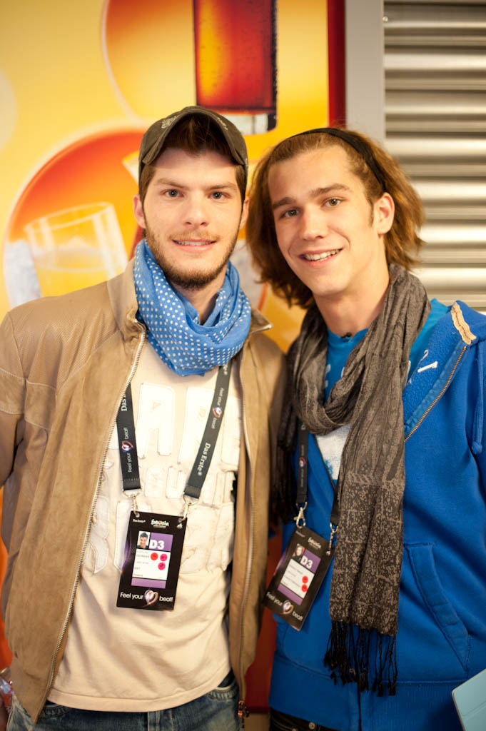 The Greek and French representatives at the Eurovision Song Contest 2011.